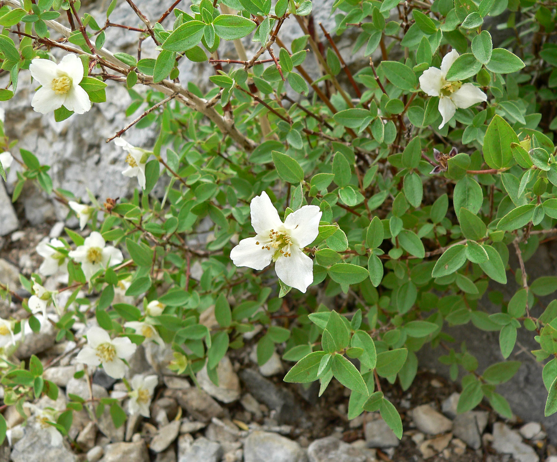 Philadelphus microphyllus on the North Loop trail east of Mummy Mountain, Spring Mountains, southern Nevada (elev. about 2900 m)